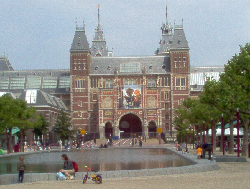 And yet another picture of the Rijksmuseum...Rijksmuseum